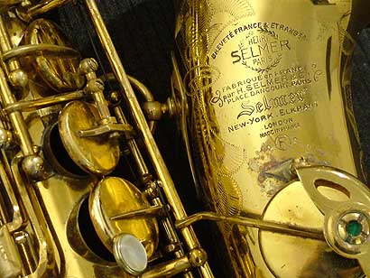 Bell Of A Selmer Mark Vi Alto Saxophone Within The 80,000 Serial Number Range Category:Images previously tagged with the userpage template PD-self--Jmm1713 07:55, 25 March 2007 (UTC)